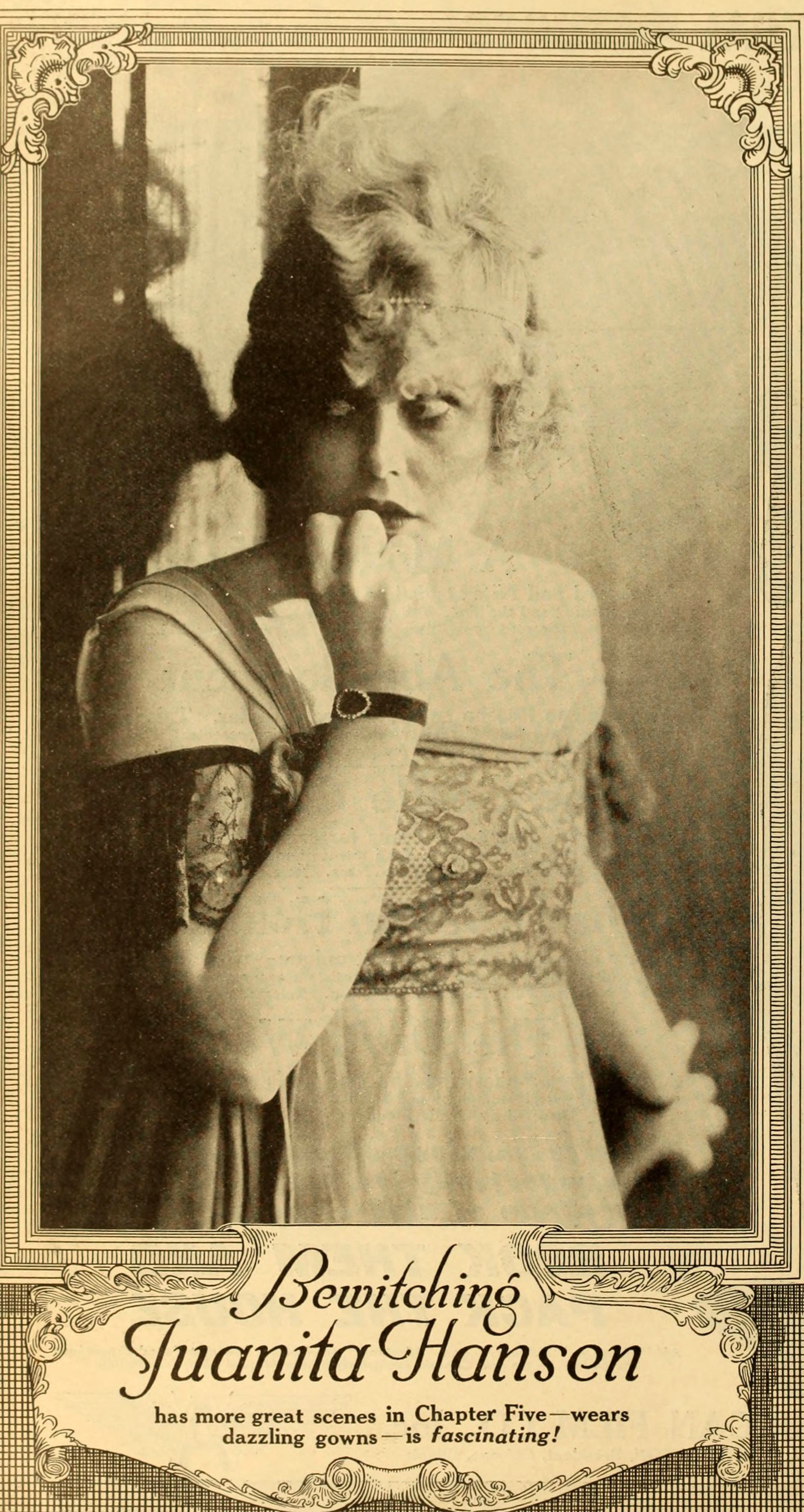 Advertisement in The Moving Picture World for the American film serial The Secret of the Submarine (1915).